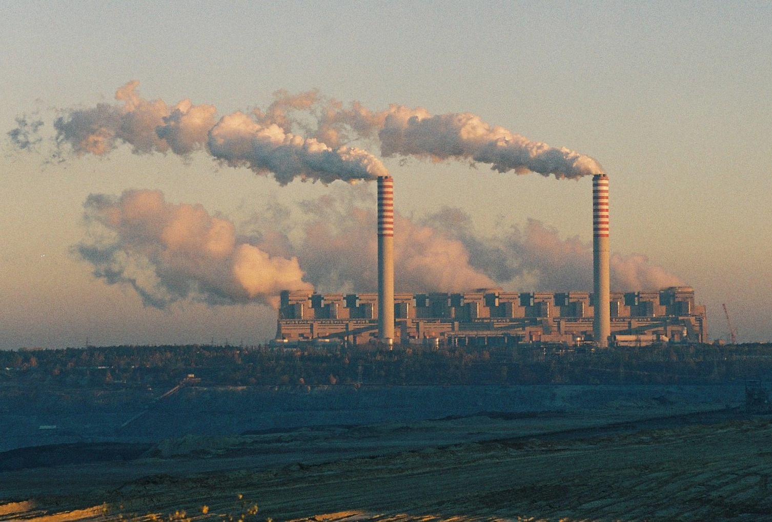 Polish power station Belchatow